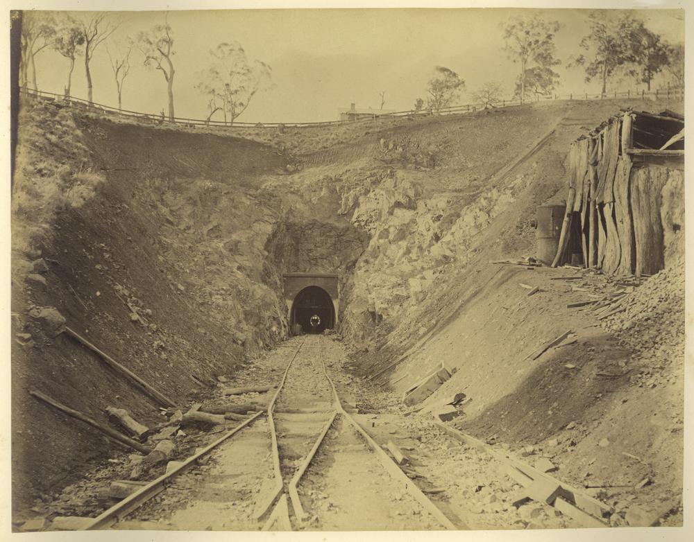 Tunnel No. 1 on the Stanthorpe extension line, 1882 Railway worker emerging from the mouth of a railway tunnel. The railway cutting is deep and vegetation has yet to regenerate. This tunnel had several names; the Big Tunnel (during construction), Overend Tunnel (the contractor who built the line), Cherry Gully Tunnel, but its proper name is the Gorge Tunnel. Work commenced in June 1878 and was completed in November 1880. It has concrete lined walls and a brick arch ceiling. It is 272m (858 feet) in length. The slug from the tunnel was used to build Gorge Dam.